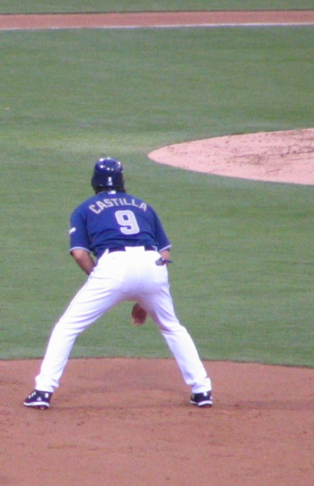 Vinny Castilla playing for the San Diego Padres in 2006.